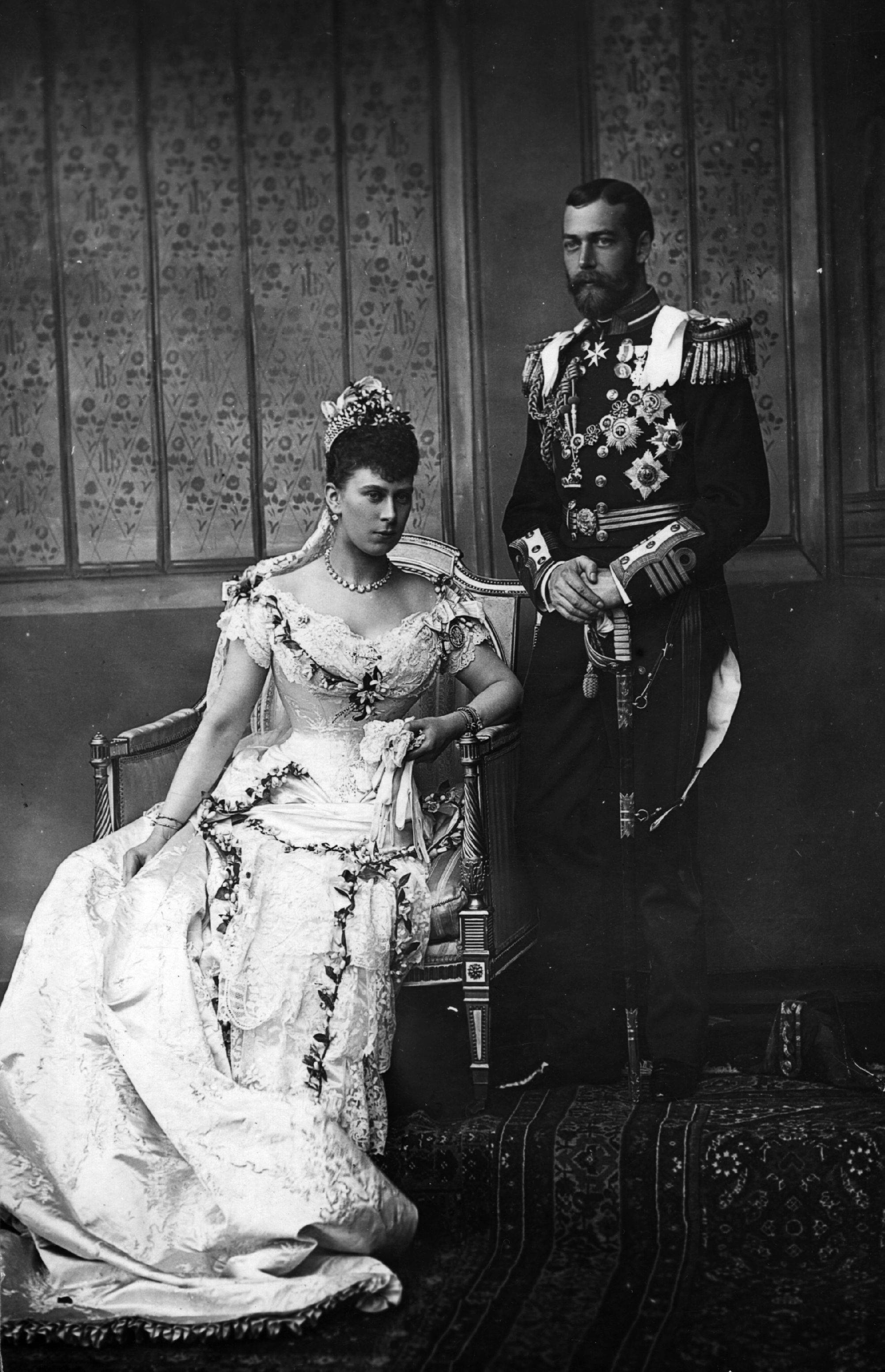 Wedding of George V of the United Kingdom and Princess Mary of Teck in 1893